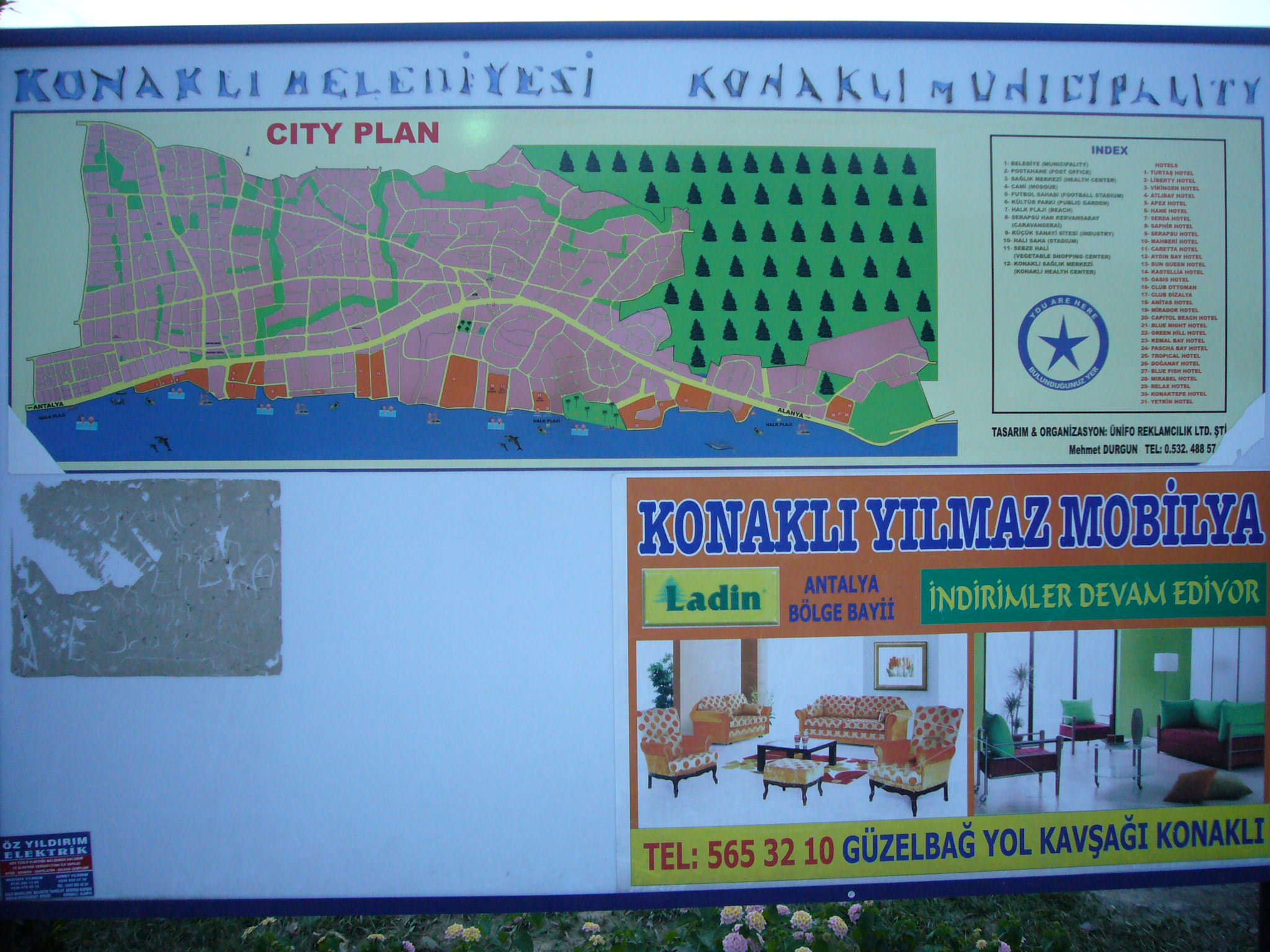 Konakli Municipality city plan found near the Konakli Public Garden in Konakli town, Alanya District, Antalya Province, Turkey